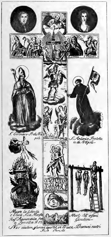 Sanfedista religious print